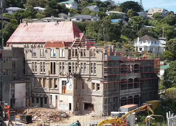 Demolition of main block of former Erskine College (built 1906), Catholic girls boarding school also known as Convent of Sacred Heart. Located in Island Bay, Wellington, New Zealand.